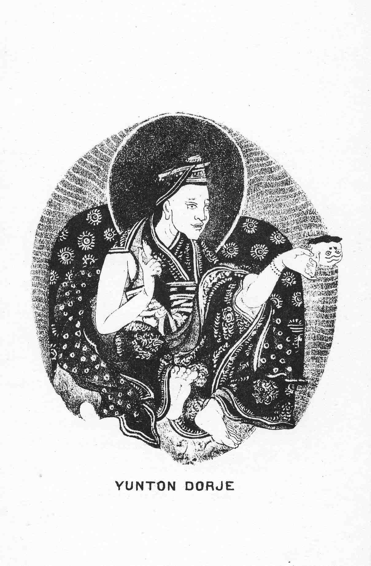 Image taken from a publication by Sarat Chandra Das (1849-1917), "Contributions on Tibet", in the Journal of the Asiatic Society of Bengal Vol. LI (1882), so it is in the public domain.